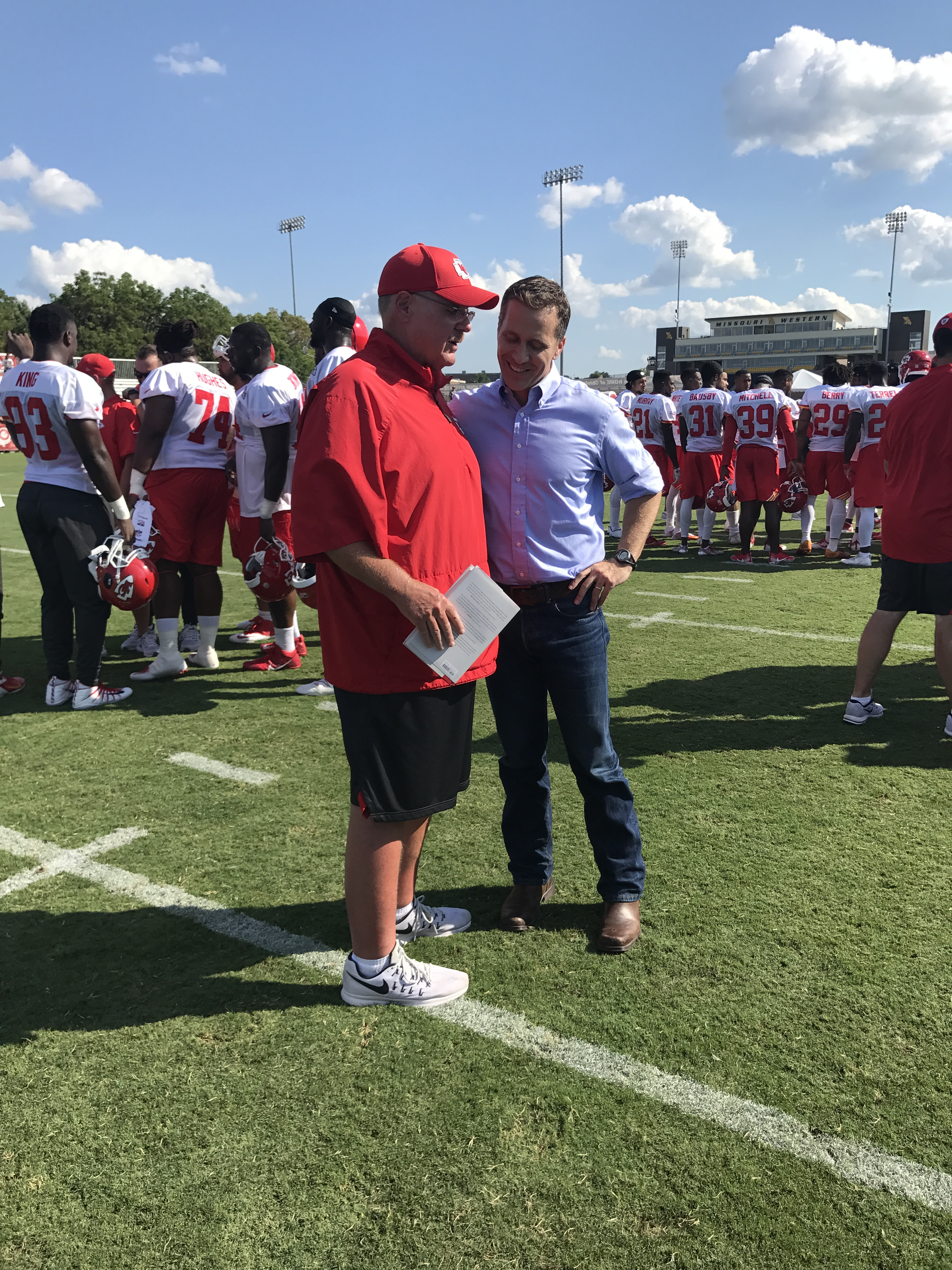 Governor Greitens and Kansas City Chiefs Coach Andy Reid on the field at KC Chiefs Training Camp in St. Joseph, Missouri in July 2017.